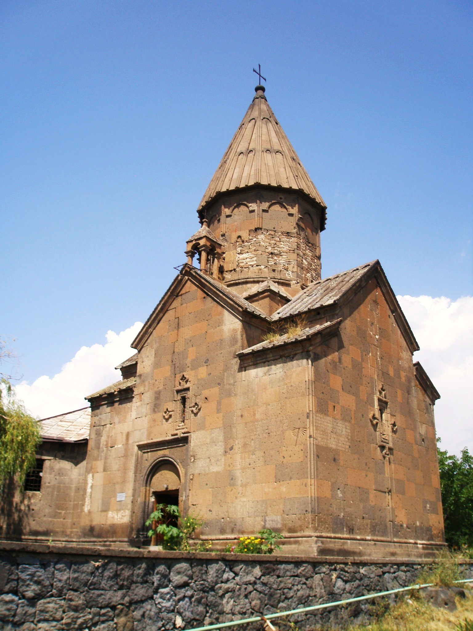 Saint Mariane (Surb Mariane) Church of Ashtarak